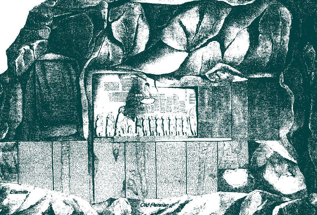 Behistun Inscription, with some modern annotations Sketch: Fr. Spiegel, Die altpers. Keilinschriften, Leipzig 1881.